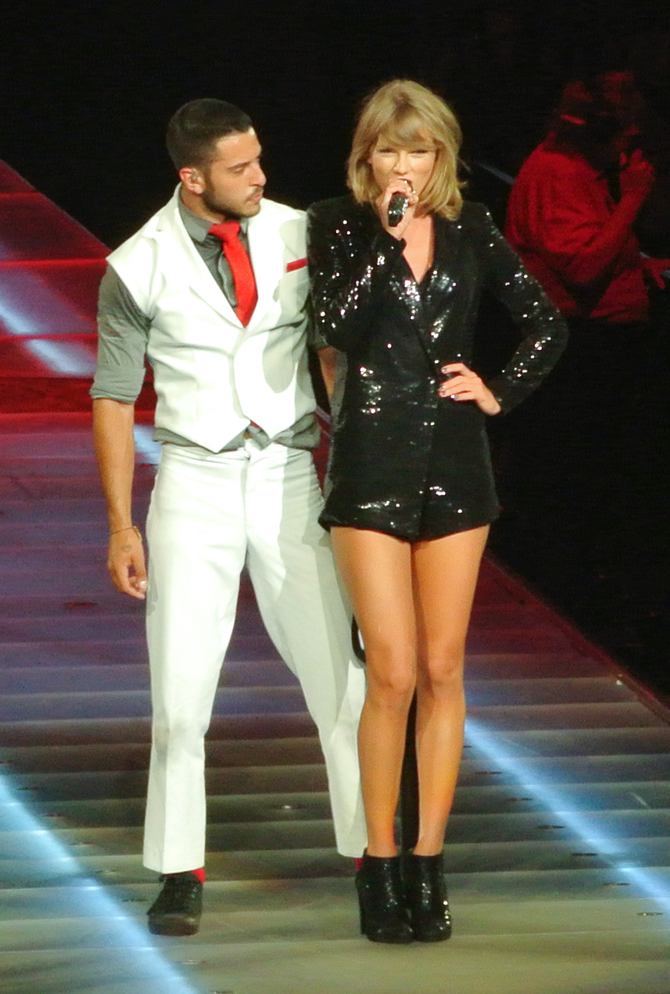 1989 Taylor Swift Concert tour Staples Center 8-22-15